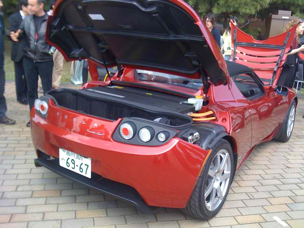 A Tesla Roadster with an open trunk on public display. Note the Shinagawa license plate at the rear.